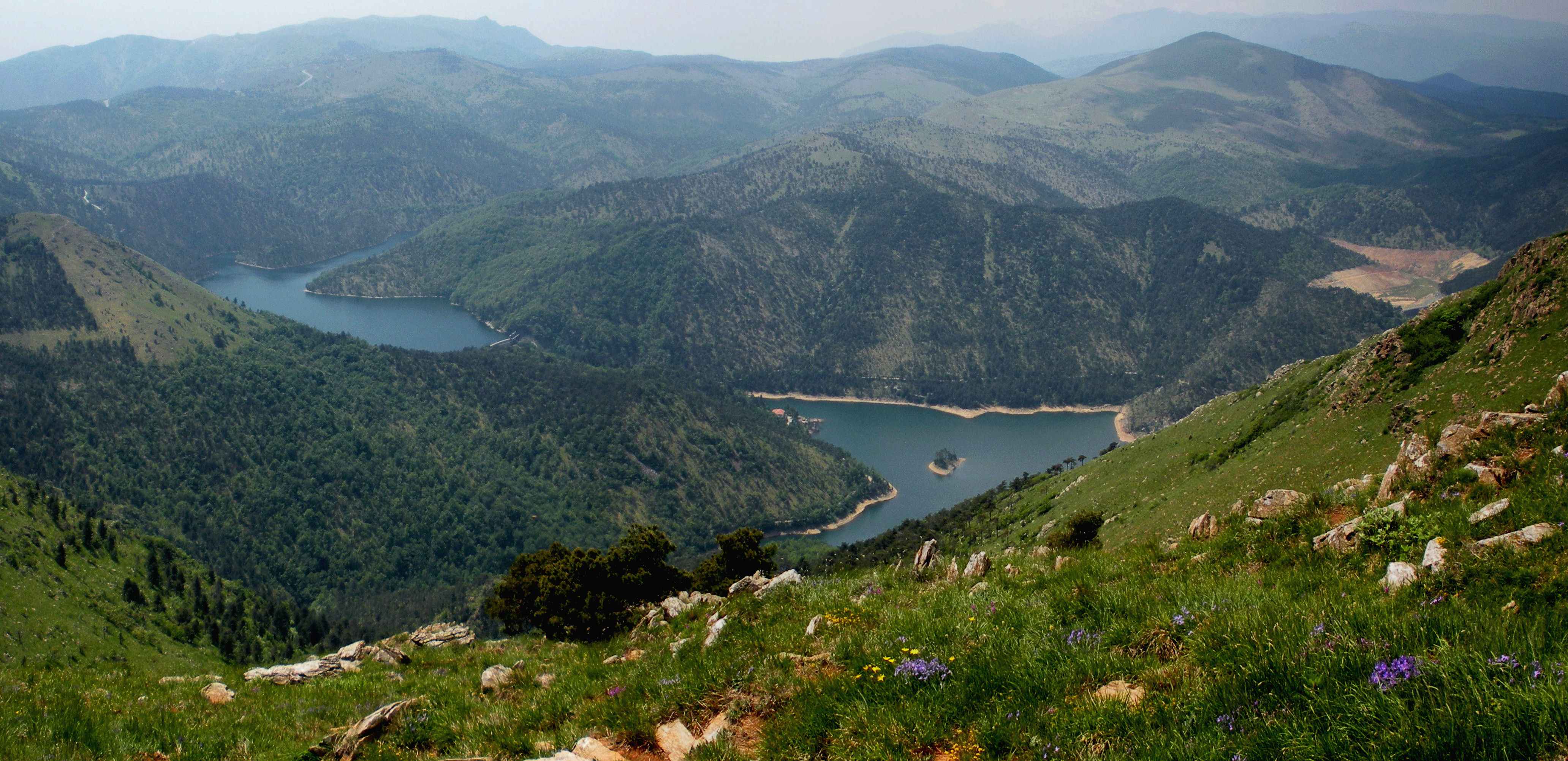 Gorzente Lakes (Bosio, province of Alessandria and Campomorone, province of Genoa, Italy): view of the lakes from mount Figne